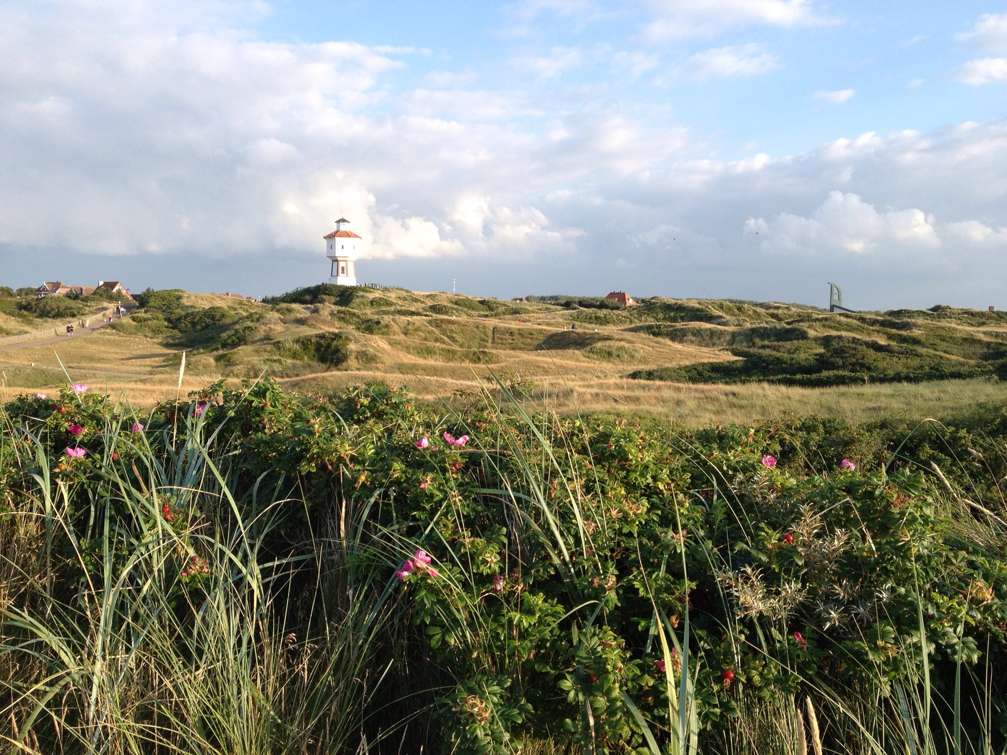 The Kaap dunes in Langeeog. In the background is the water tower of Langeoog.